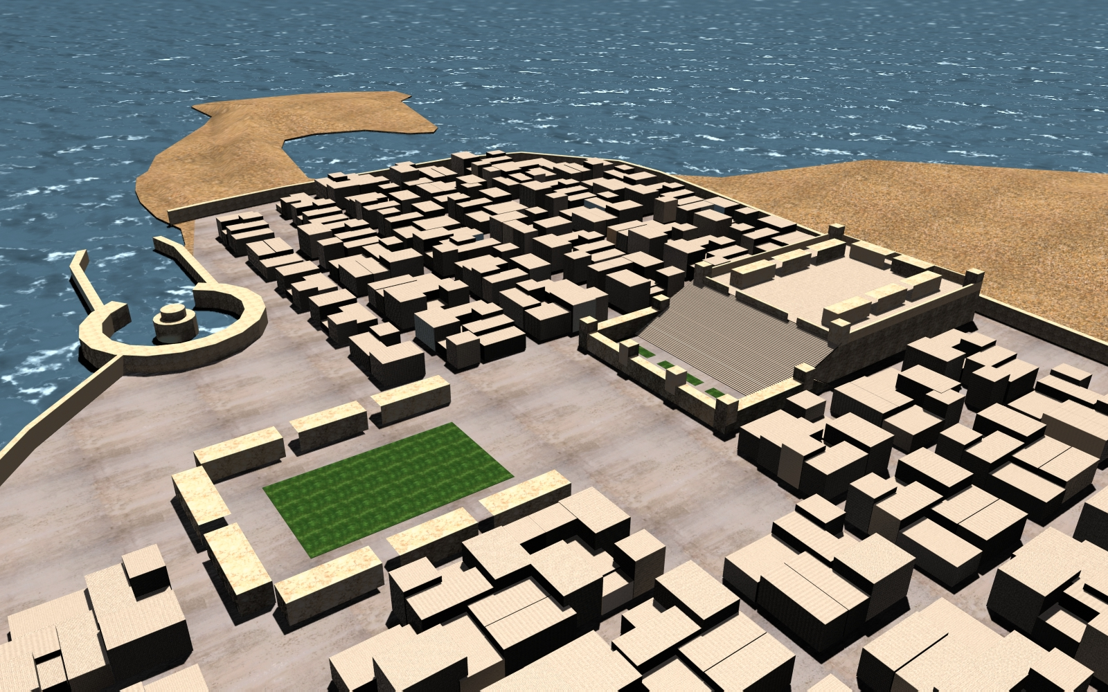 Artistic representation of the ancient city of Carthage with the temple of Eshmun, even if it is positioned as an extension of the agora, while its position was probably on the Byrsa hill